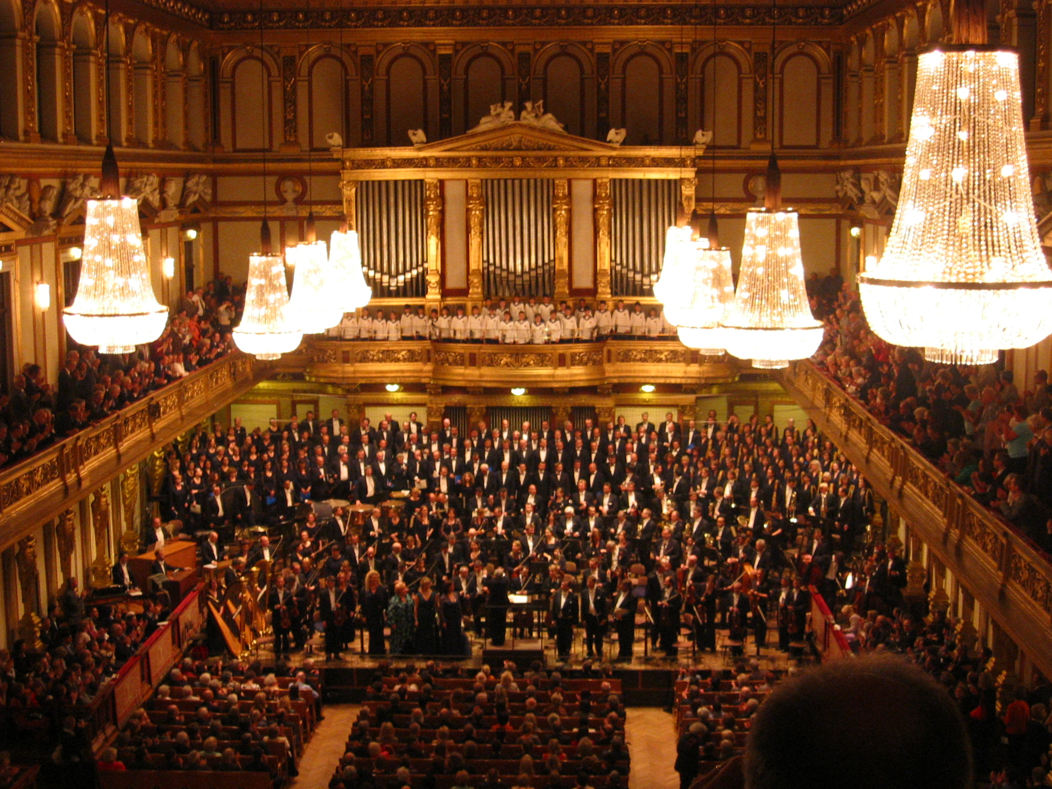 30. April 2009, Musikverein Vienna. With Pierre Boulez, Staatskapelle Berlin, Singverein der Gesellschaft der Musikfreunde in Wien, Slowakischer Philharmonischer Chor, Wiener Sängerknaben.